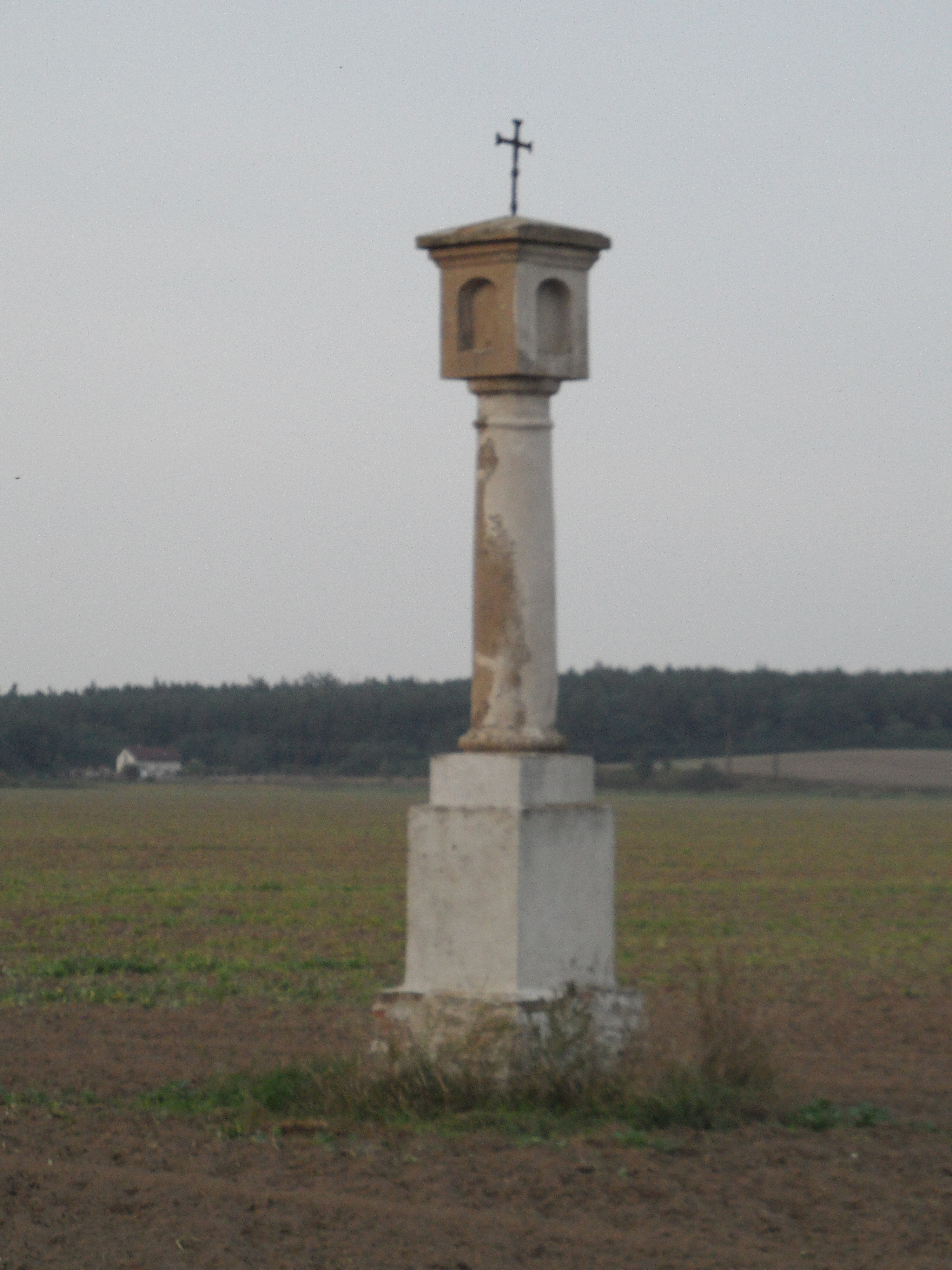 Hradišťko I d. Calvary, Kolín District, the Czech Republic.